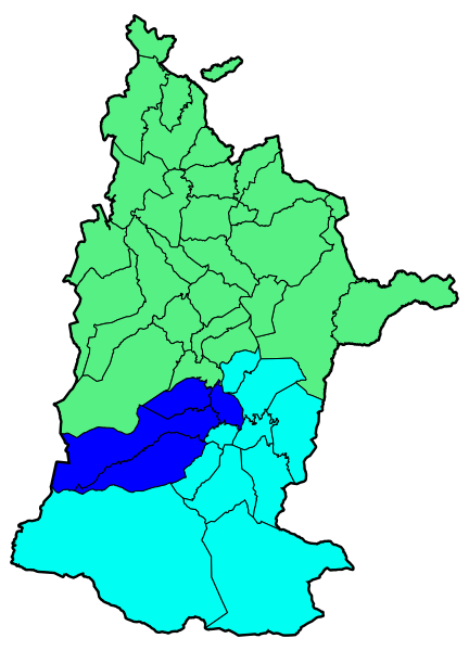 Map of the valleys of Basabürüa in Zuberoa according to Euskaltzaindia